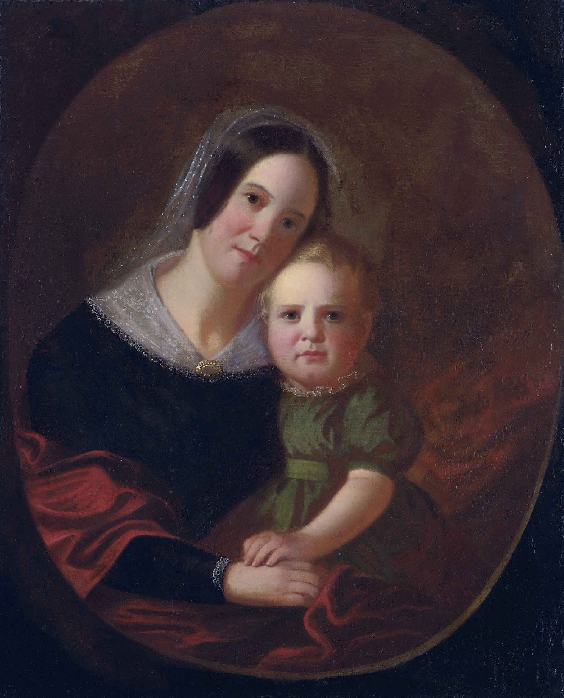 Mrs George Caleb Bingham (Sarah Elizabeth Hutchison) and son, Newton oil on canvs 88.9 x 72.4 cm ca 1841